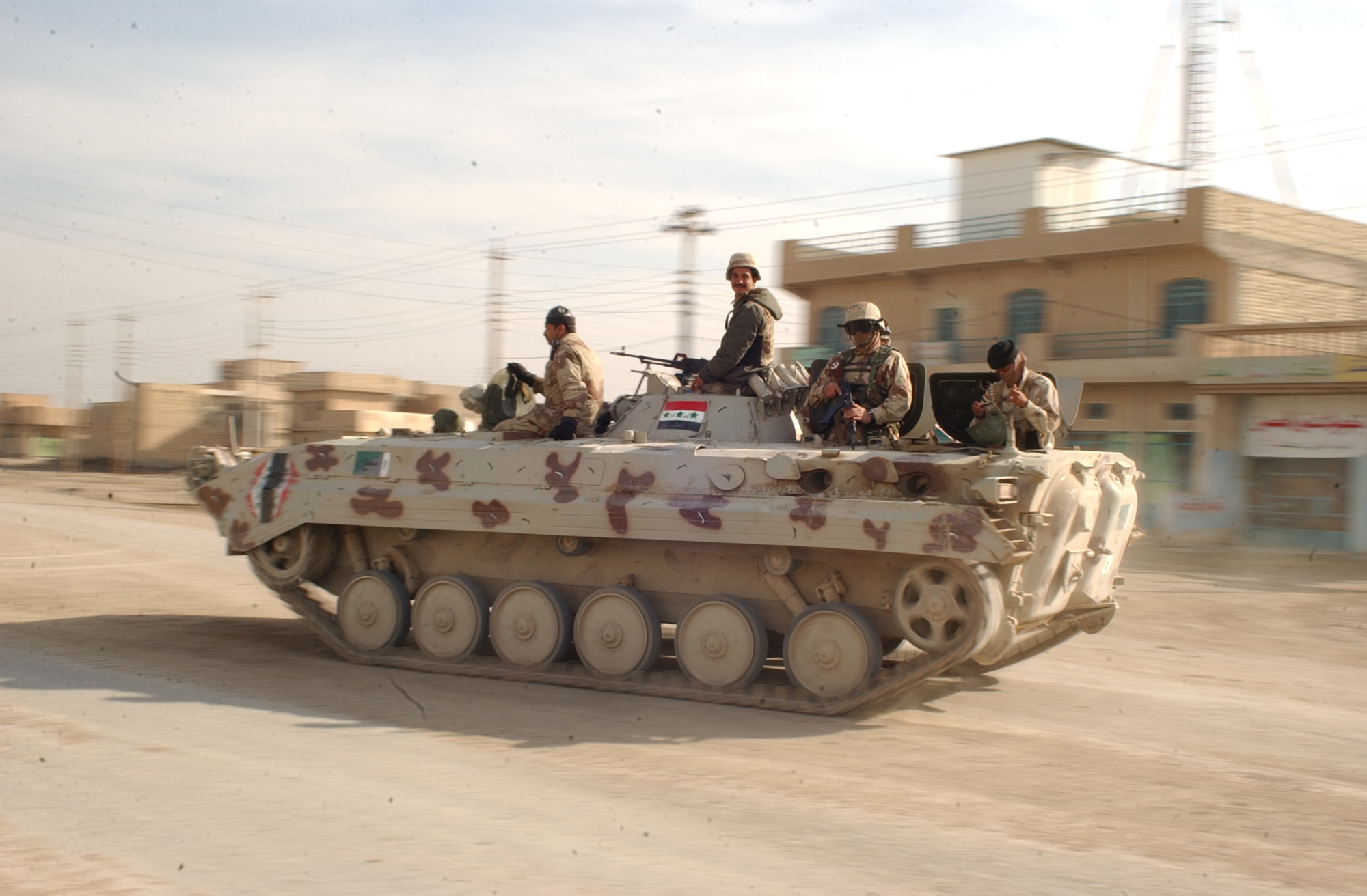 Iraqi soldiers pass by in a BMP-1 amphibious tracked infantry fighting vehicle in Sabe al Boor, Iraq, Dec. 21, 2006, during a mission in support of Operation Iraqi Freedom.